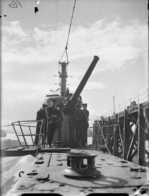 IWM caption : The gun crews closed up at their 3 inch 20 hundredweight Mark I gun on CPV mounting aboard HMS SNAPPER as she sits alongside a quayside.